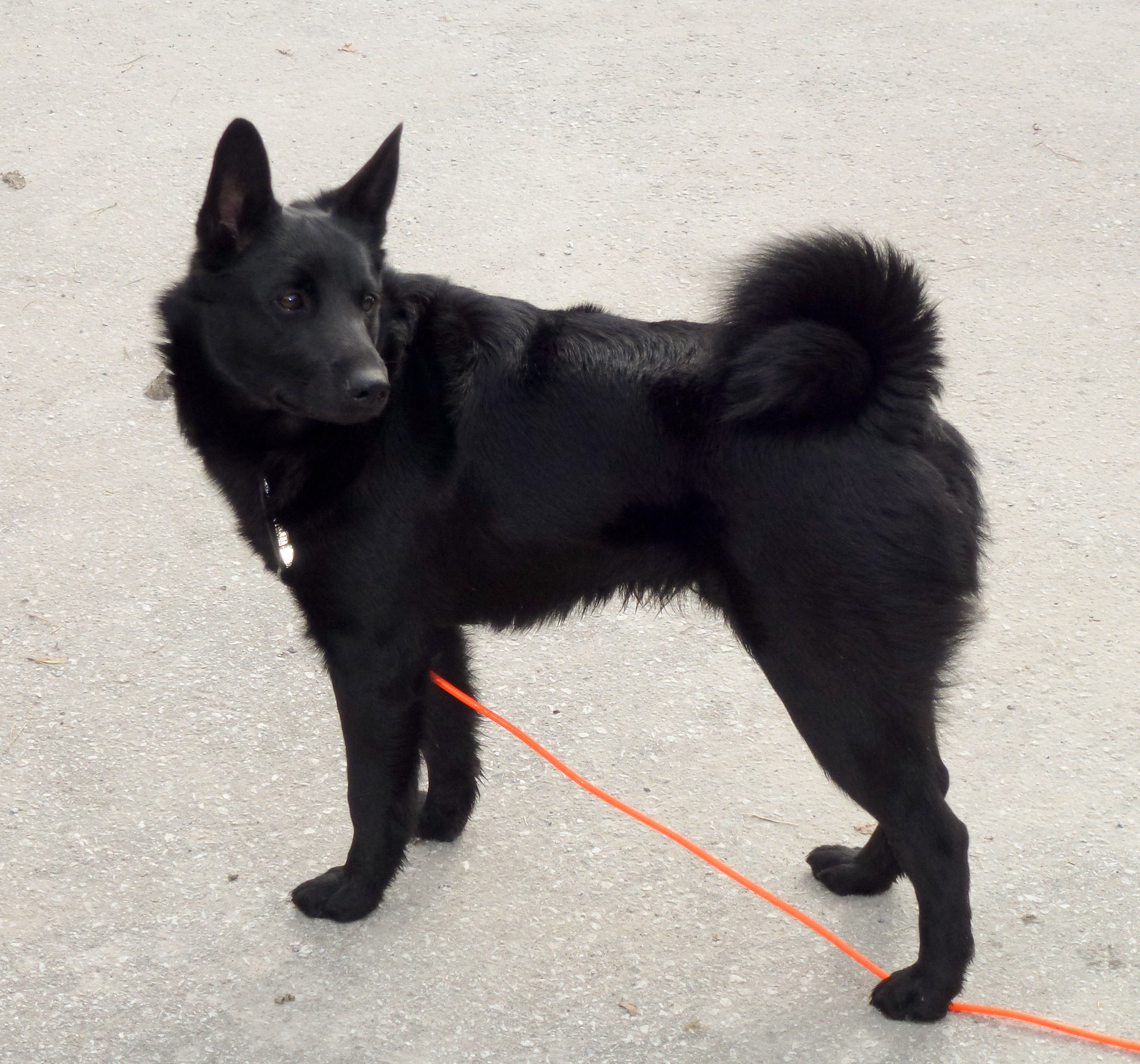 Black Norwegian Elkhound About 1 years old.